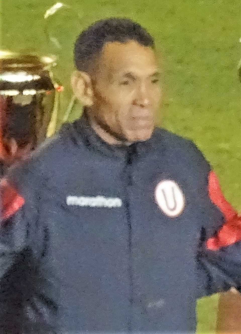 Samuel Eugenio, Peruvian football player and coach. Noche Crema 2018